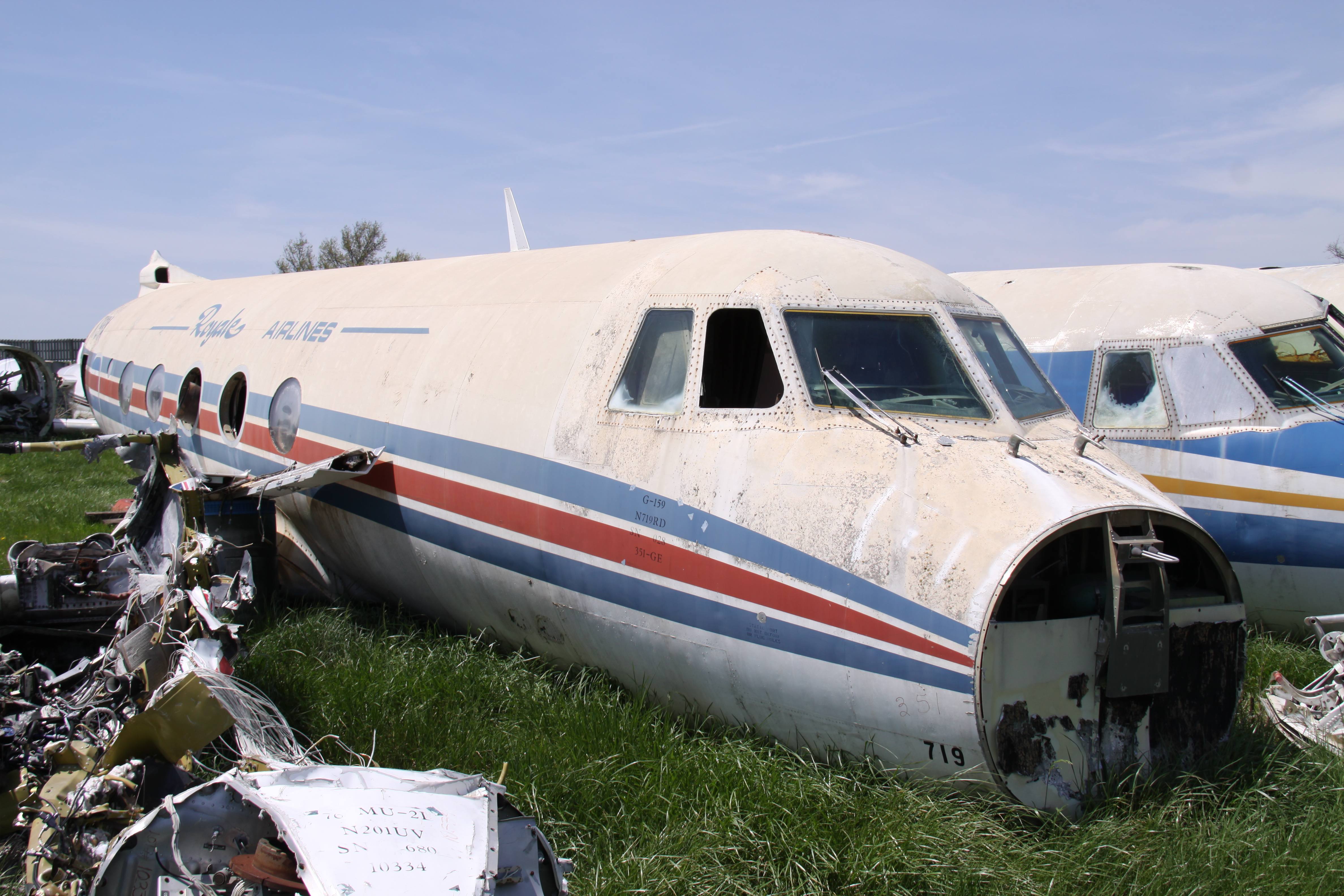 At Rantoul, KS